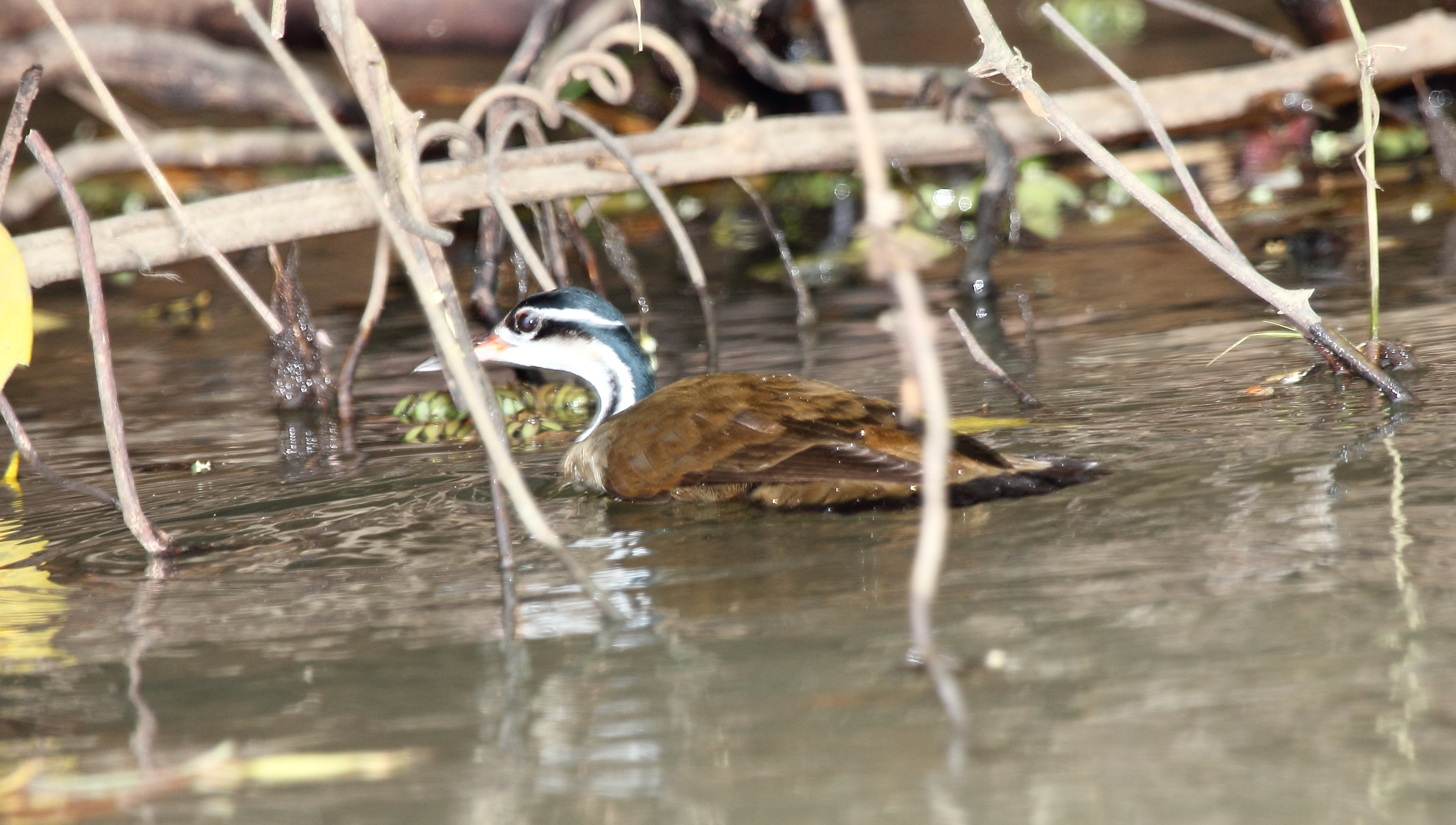 Photographed at Tortuguro National Park, Costa Rica.